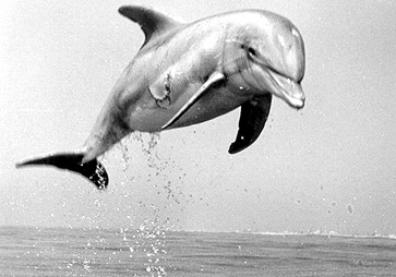 Tuffy